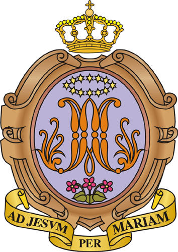 Marist Brothers emblem, designed by Marcellin Champagnat